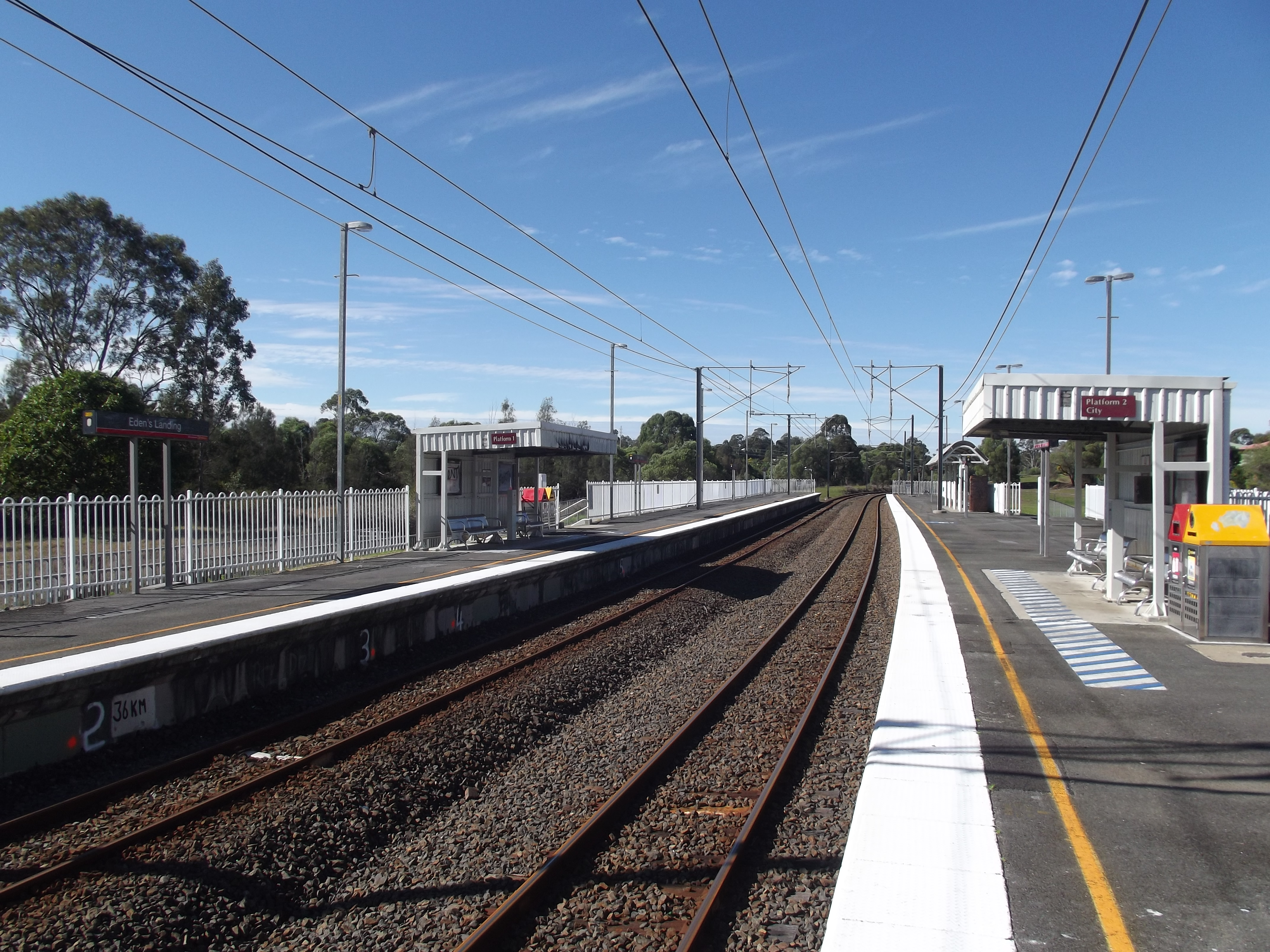 A photo of the Eden's Landing railway station, operated by TransLink, located in Logan City, Queensland.